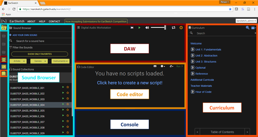 ES different sections: sound browser, DAW, code editor, console, curriculum